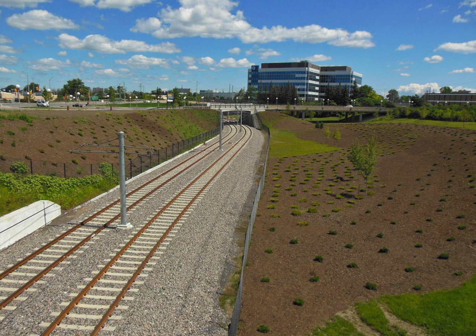 O-Train in Ottawa, Ontario